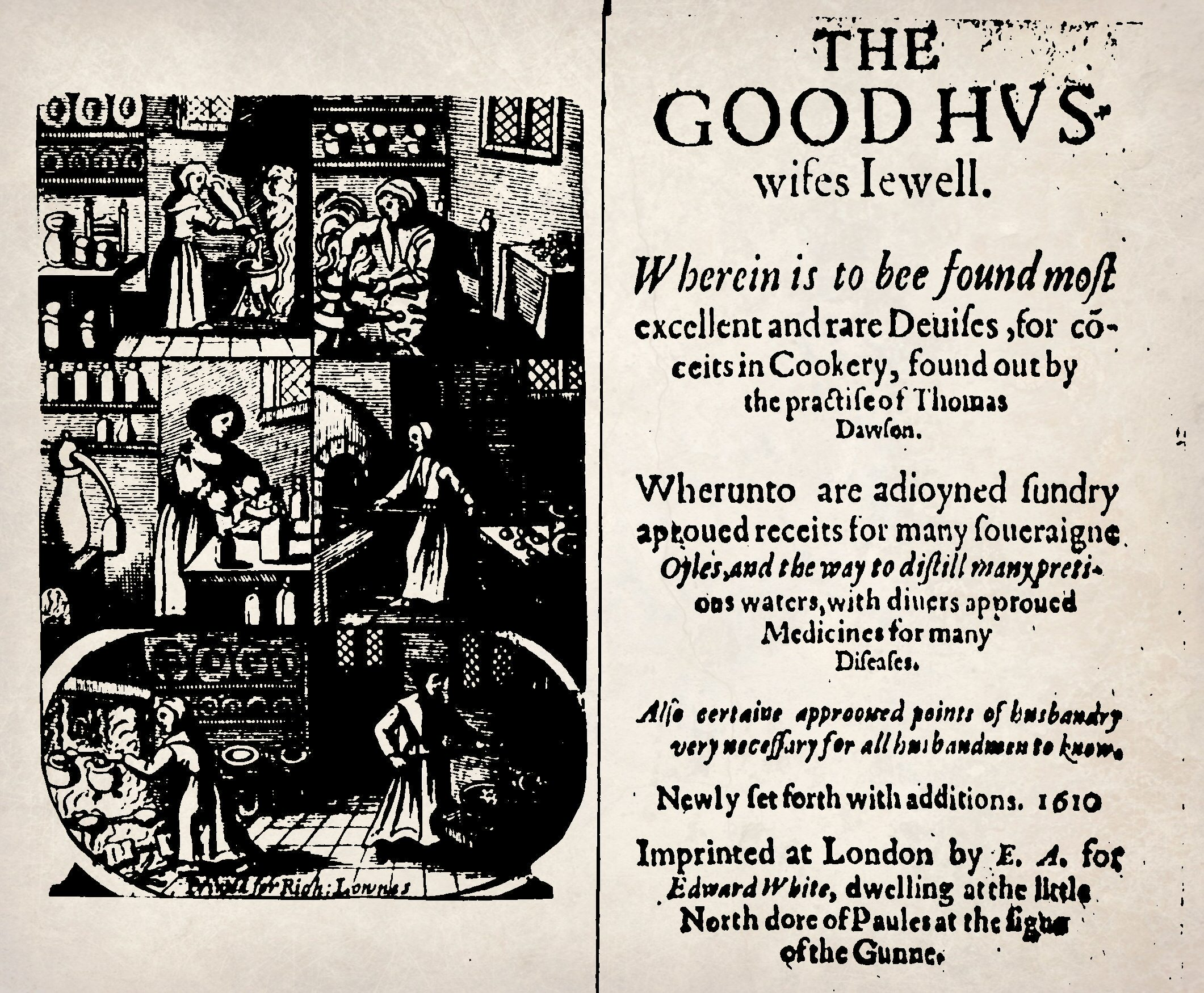 Frontispiece and Title Page of Thomas Dawson's The Good Huswife's Jewell, 1610 edition